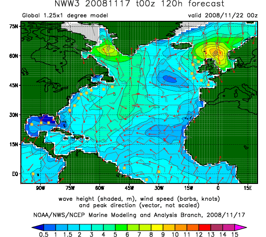 NOAA Wavewatch III 120-hour Forecast for the North Atlantic, Issued 00UTC 2008/11/17